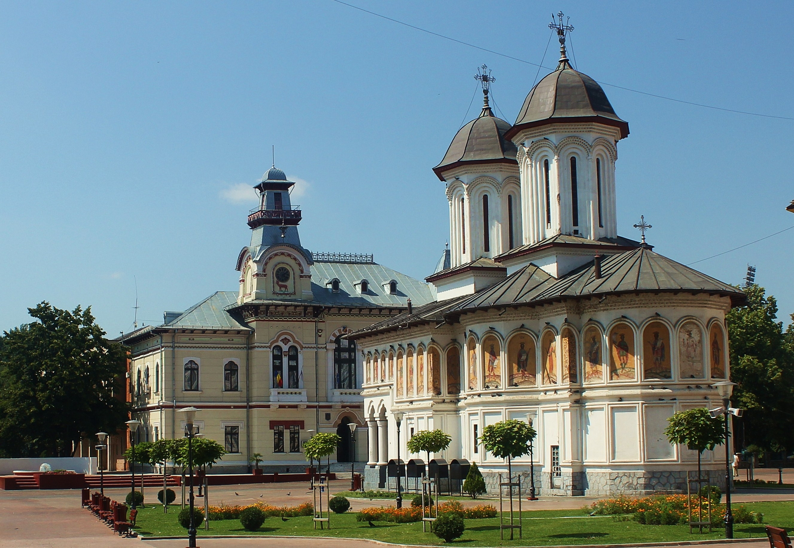 Târgu Jiu. Romania